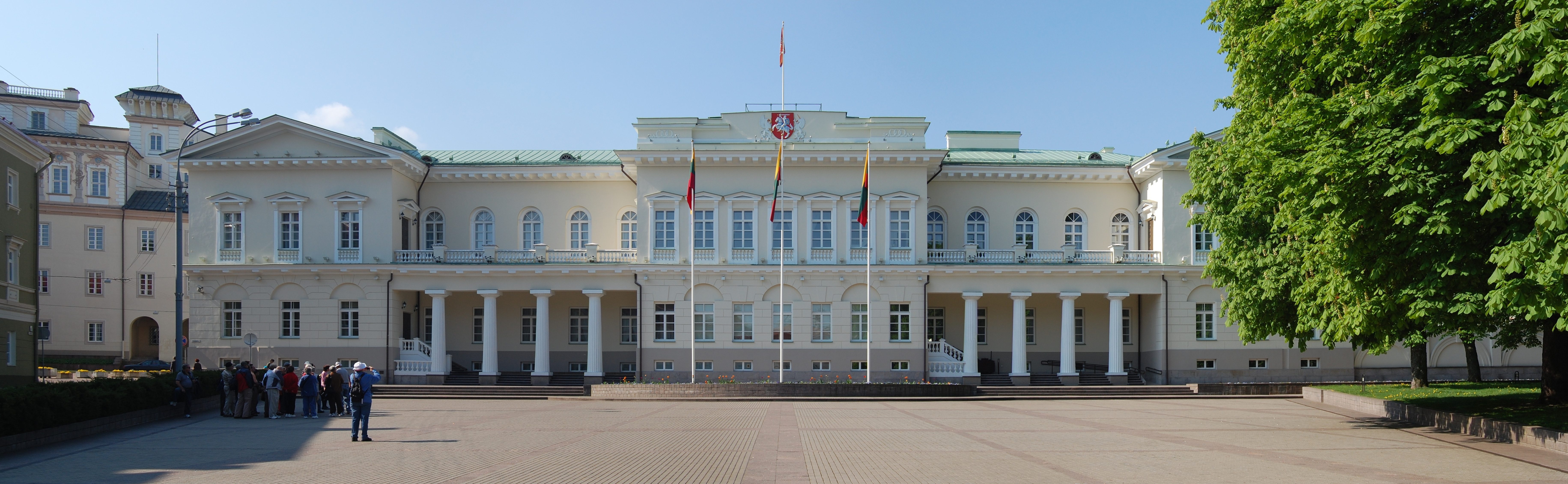 Presidental Palace, Vilnius, Lithuania This image was created with Hugin.